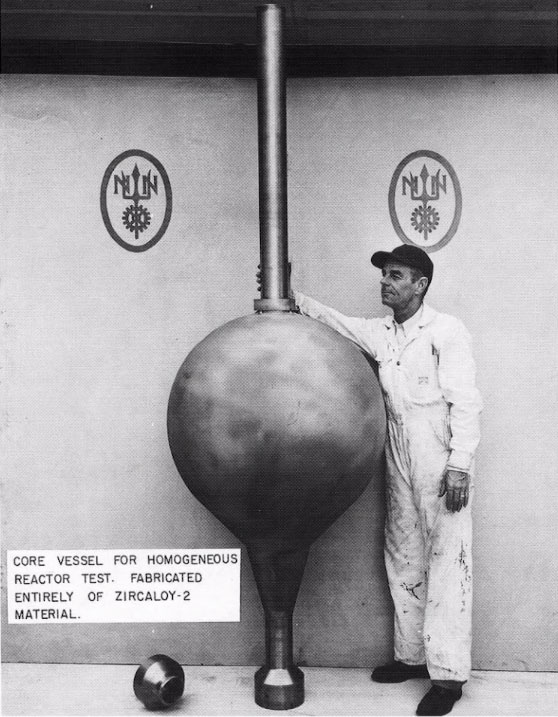 Aqueous homogeneous reactor core vessel at Oak Ridge National Laboratory